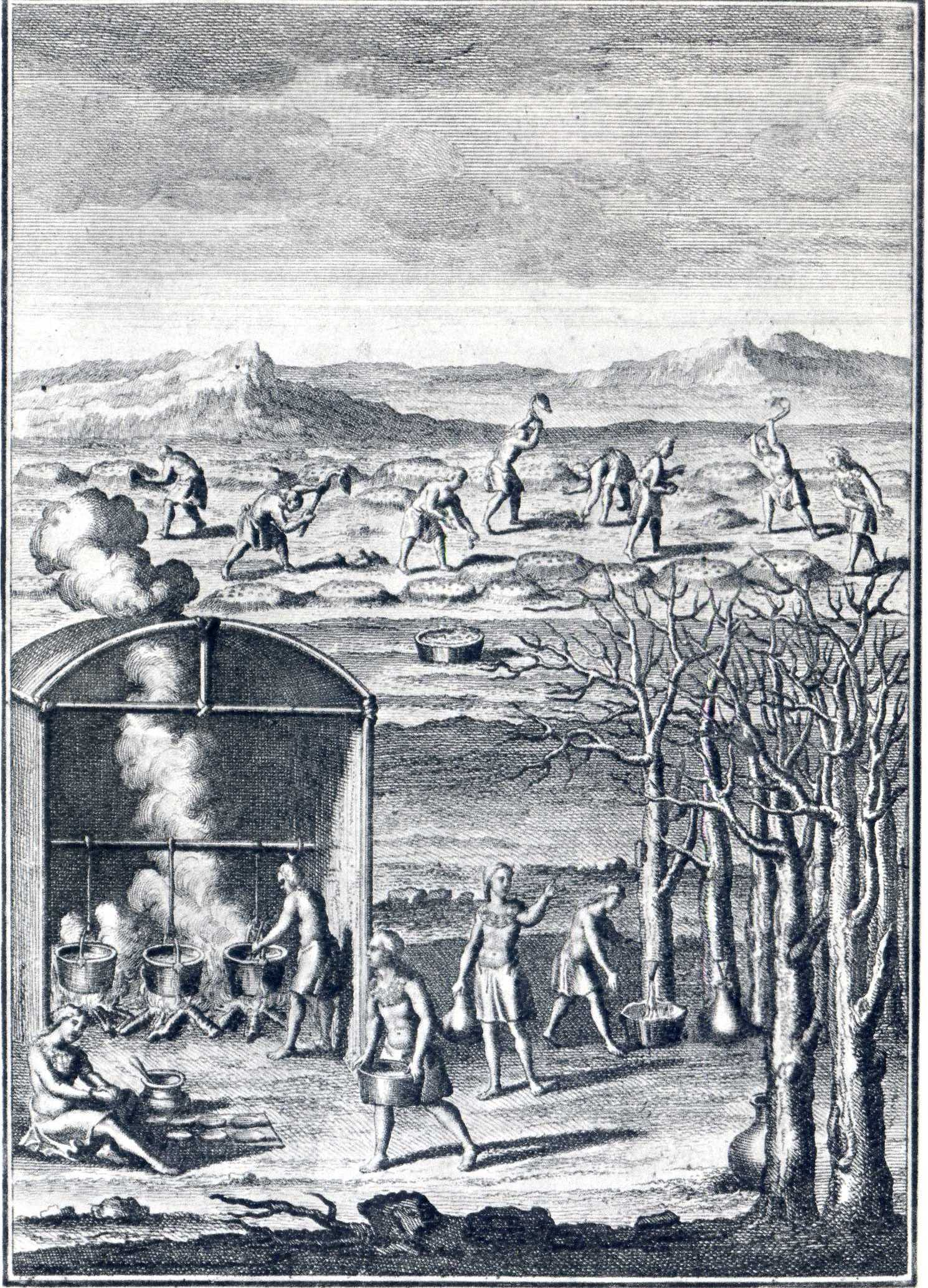 Iconography illustrations in "Customs of the American Indians" by Joseph François Lafitau (published 1724).